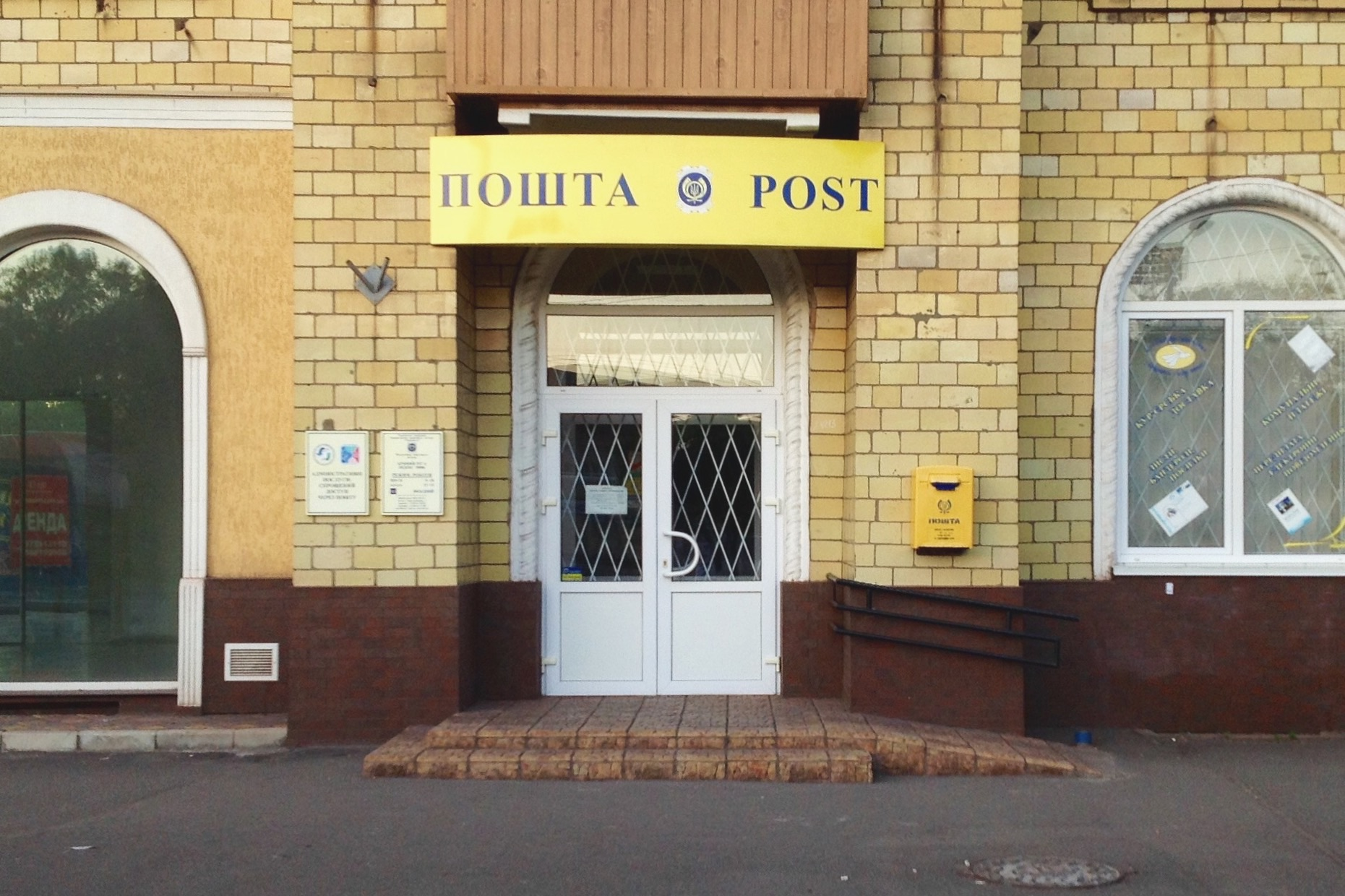 Ukrposhta in Kryvyi Rih